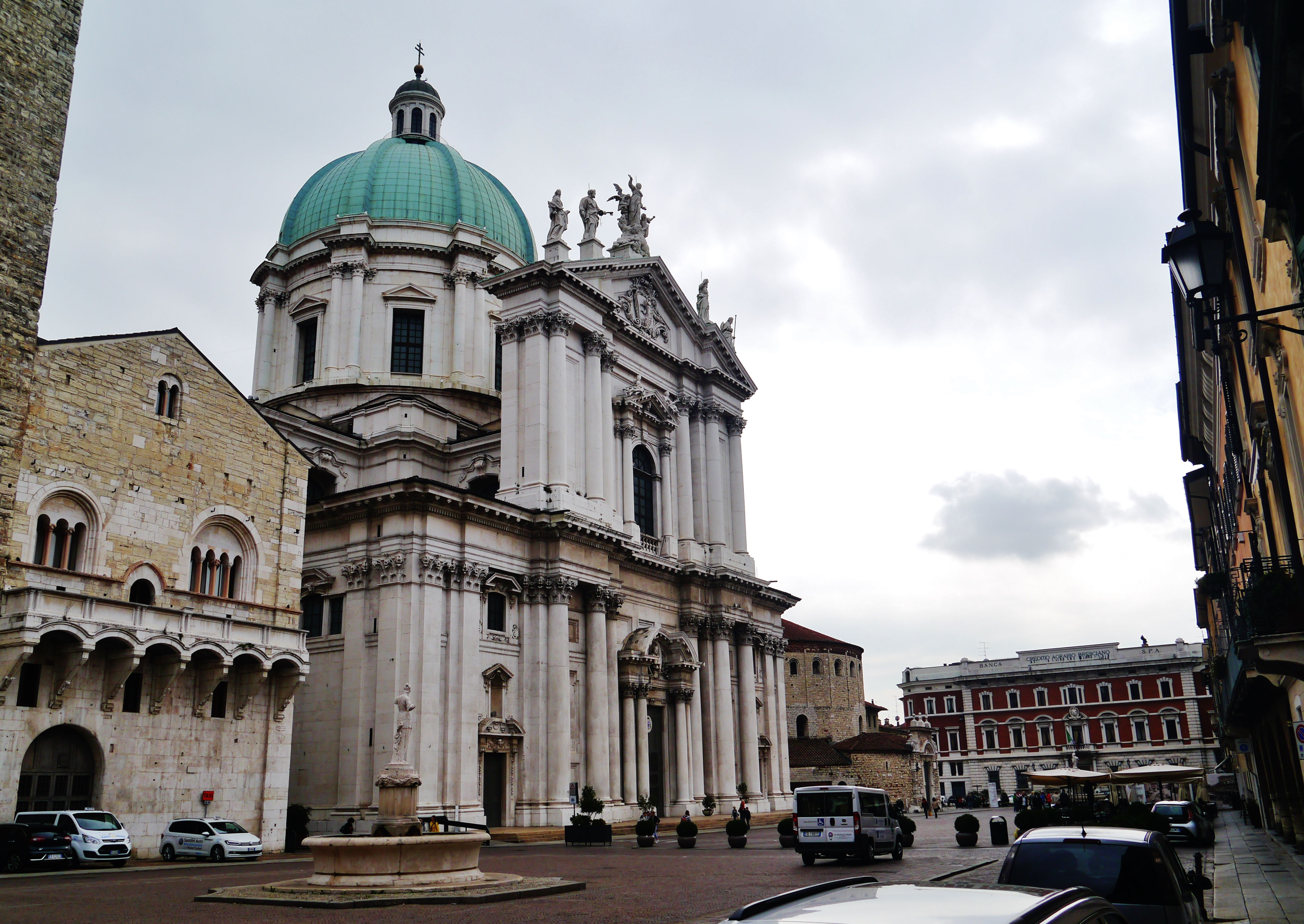 Broletto & Cathedral of St. Mary Assumption, Brescia, Province of Brescia, Region of Lombardy, Italy